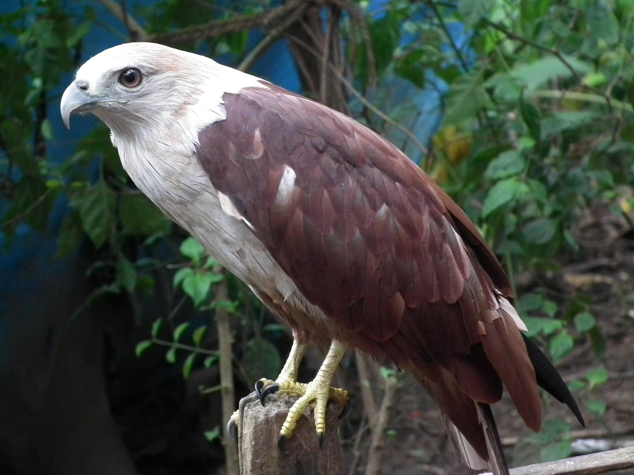 A sub-adult Brahminy Kite (also known as the Red-backed Sea-eagle) in Kerala, India.